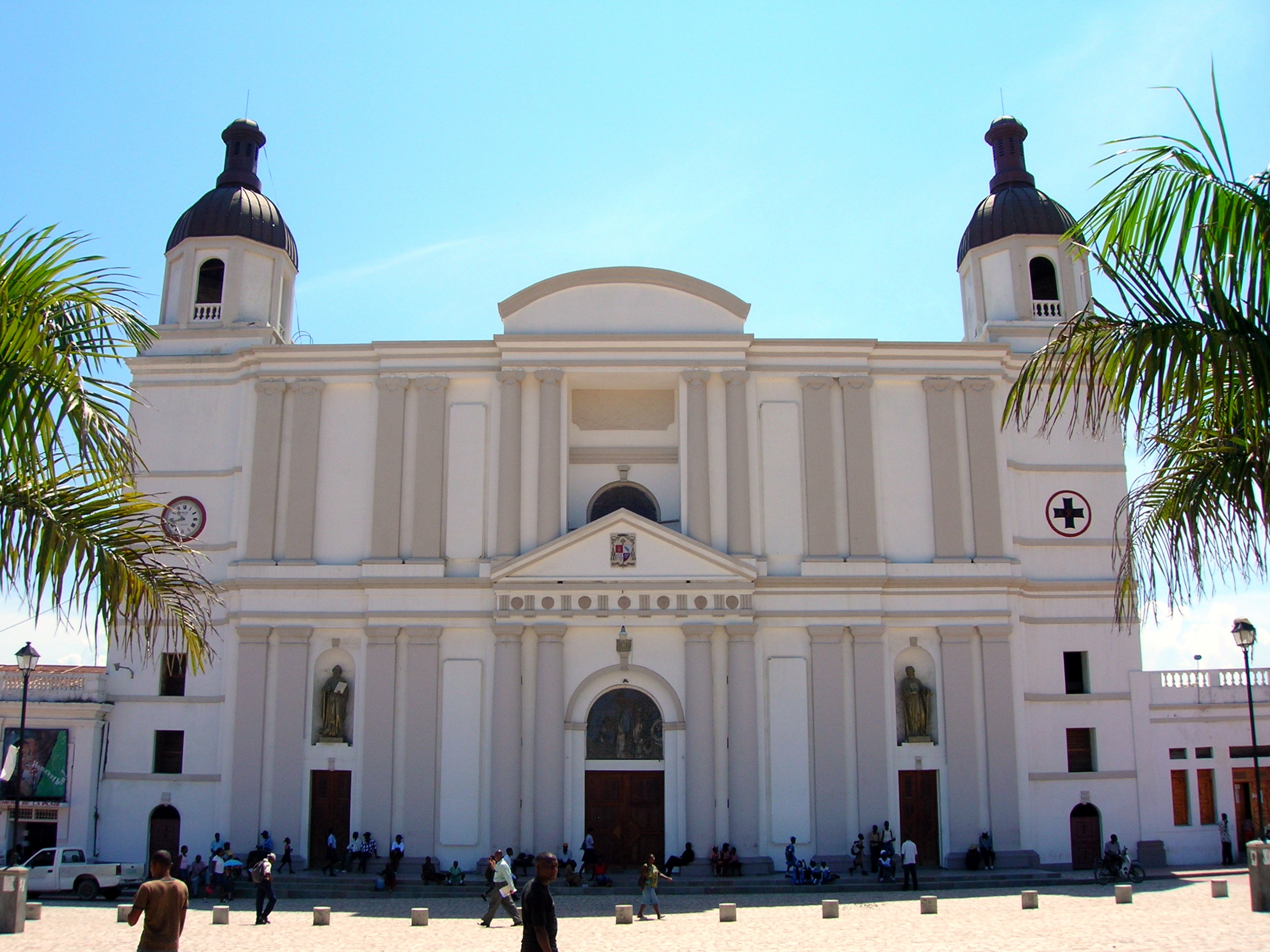 The cathedral of Cap-Haitien.